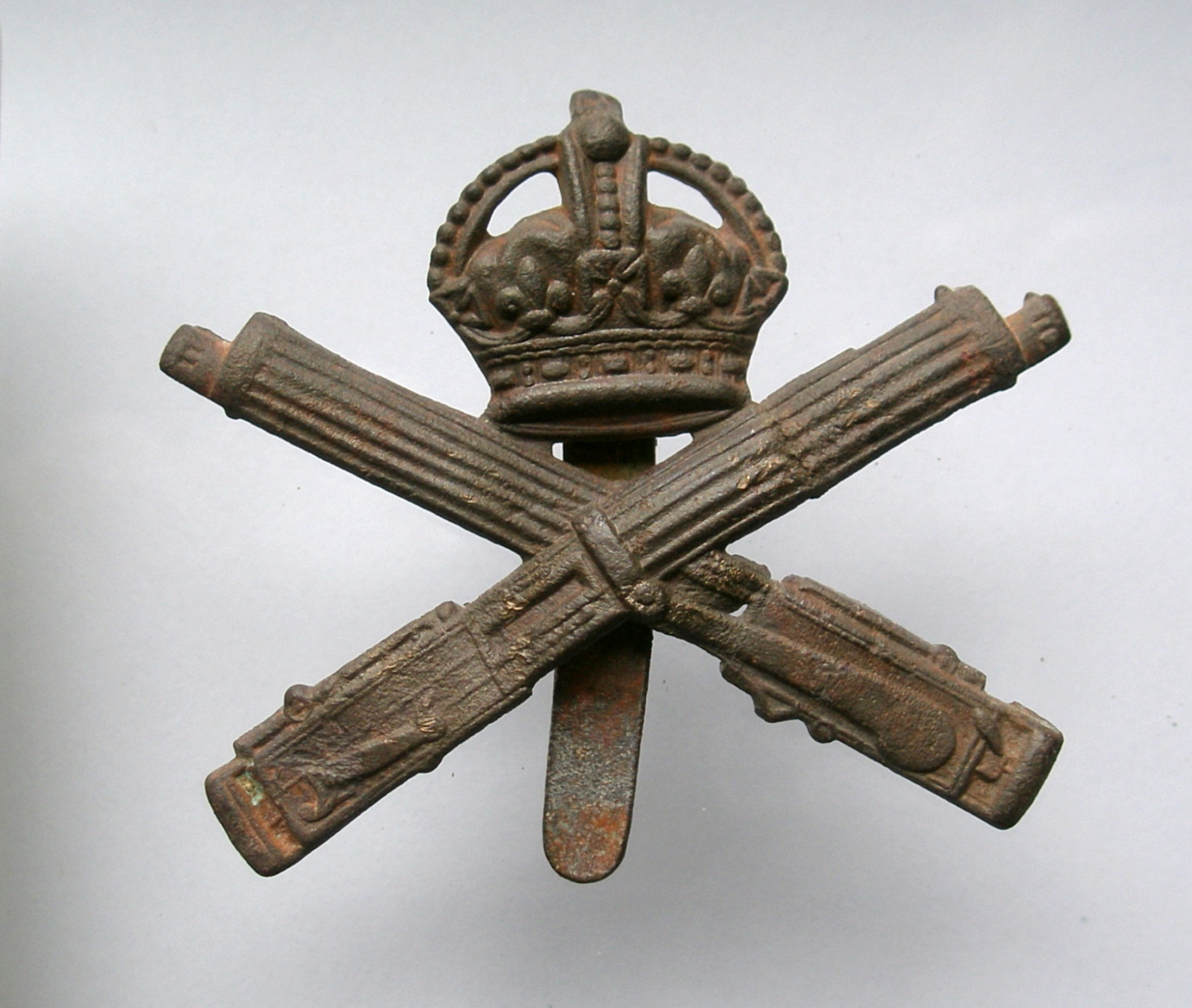 Title Badge Heavy Machine Gun Corps 1915 -17 (front)Description